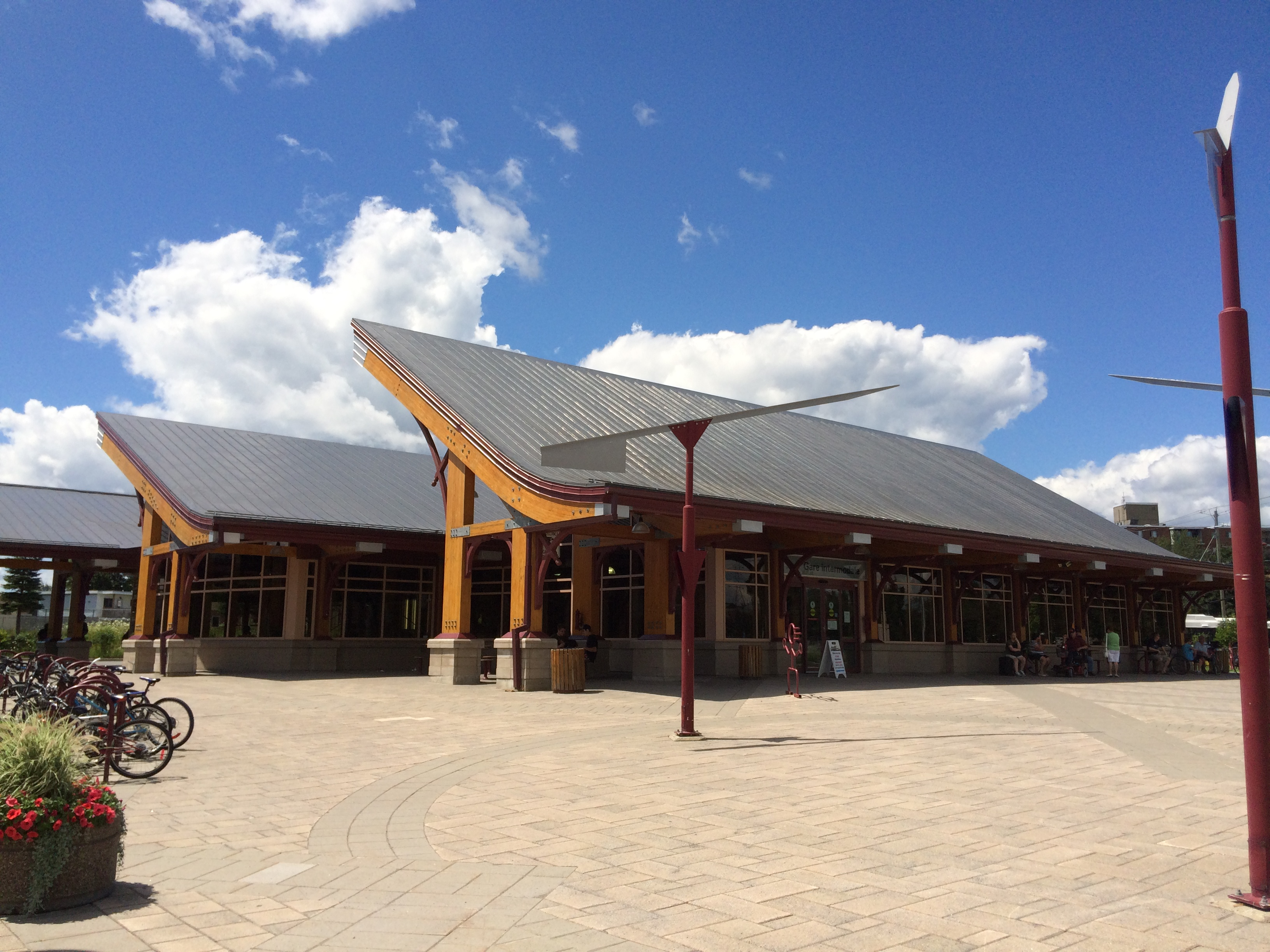 St Jerome